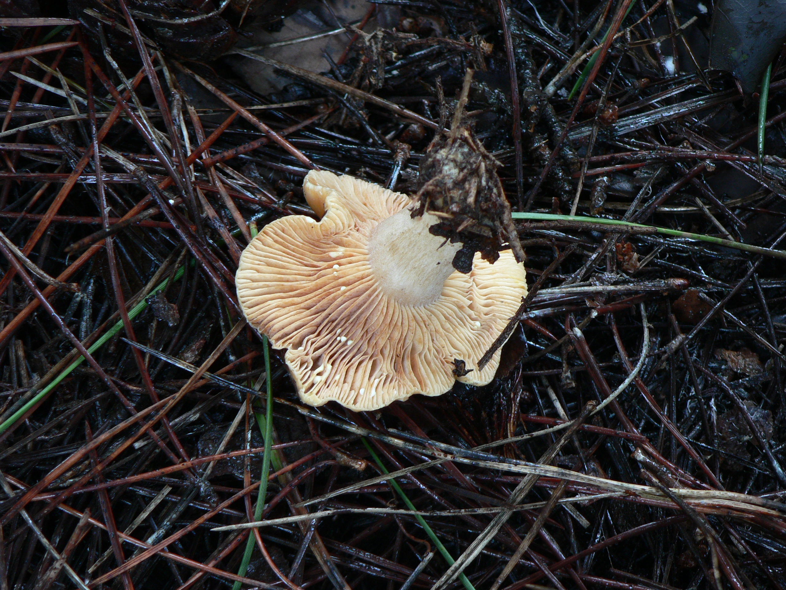 Lactarius chrysorrheus